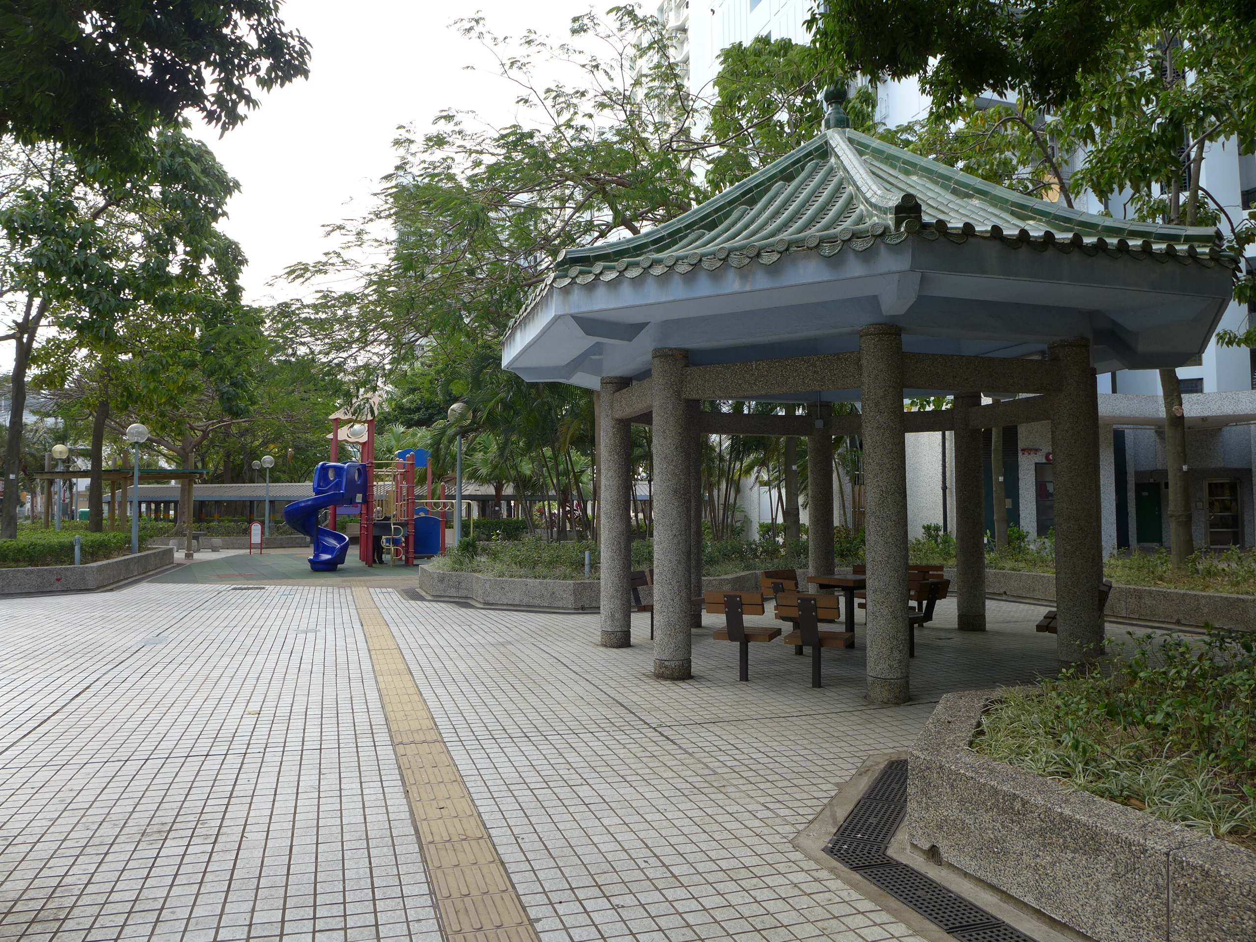 Pak Tin Estate Phase 3 open space